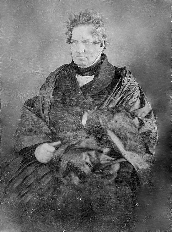 James Moore Wayne, three-quarter length portrait, facing slightly left, seated, wearing judicial robes.